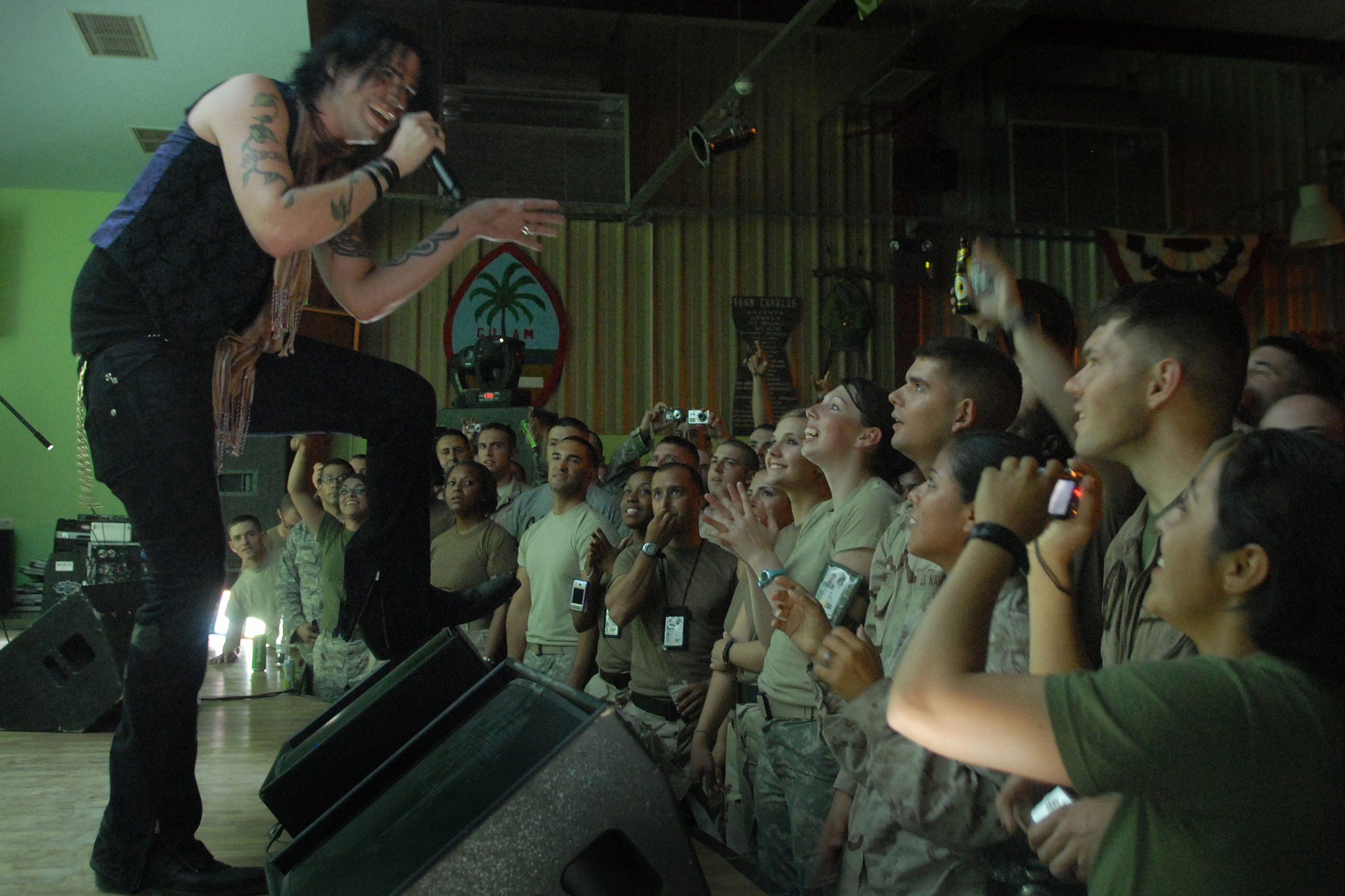 The American rock band Hinder performs for U.S. service members at a new recreation building on Camp Lemonier in Djibouti June 20, 2008. DoD photo by Mass Communication Specialist 2nd Class Johansen Laurel, U.S. Navy. (Released)